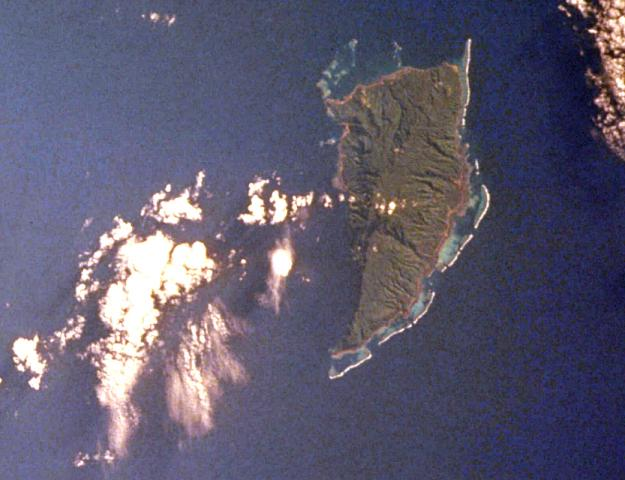 Shark-tooth-shaped Koro Island located between Fiji's two major island groups.